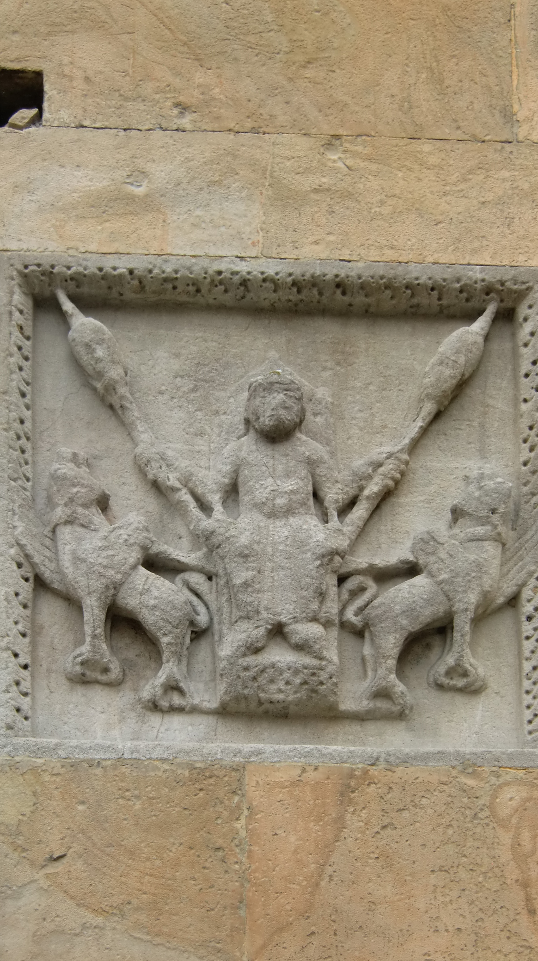 Flight of Alexander the Great, right tower, Duomo di Fidenza, end of 12th century - beginning of 13th century